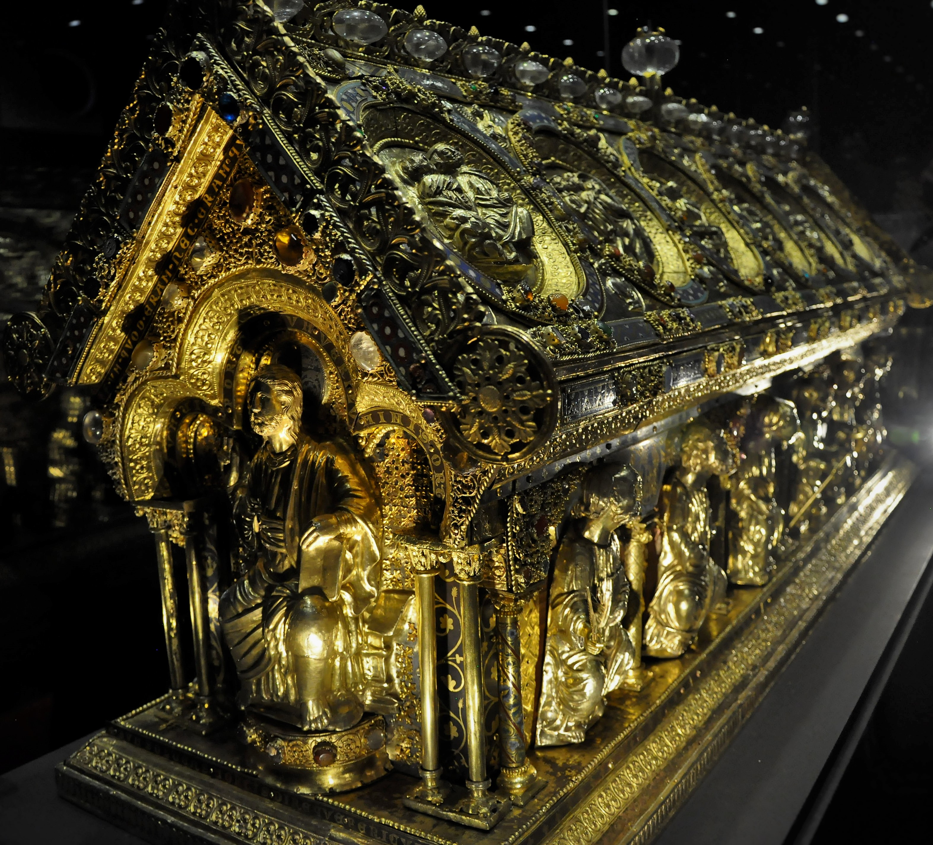 Medieval Reliquary of St. Maurus